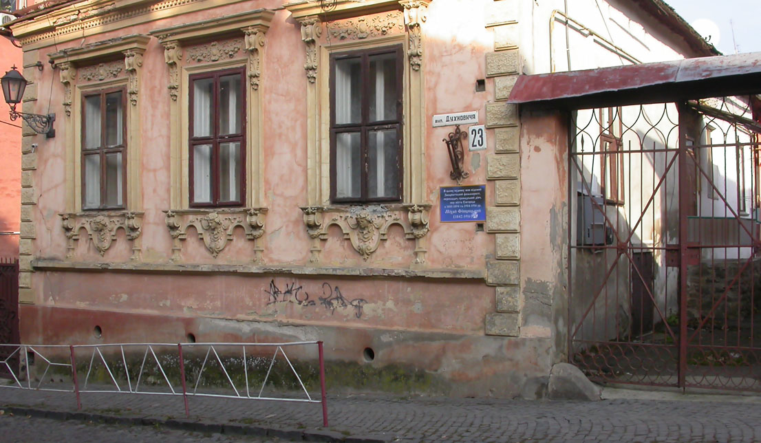 Fincicky's house